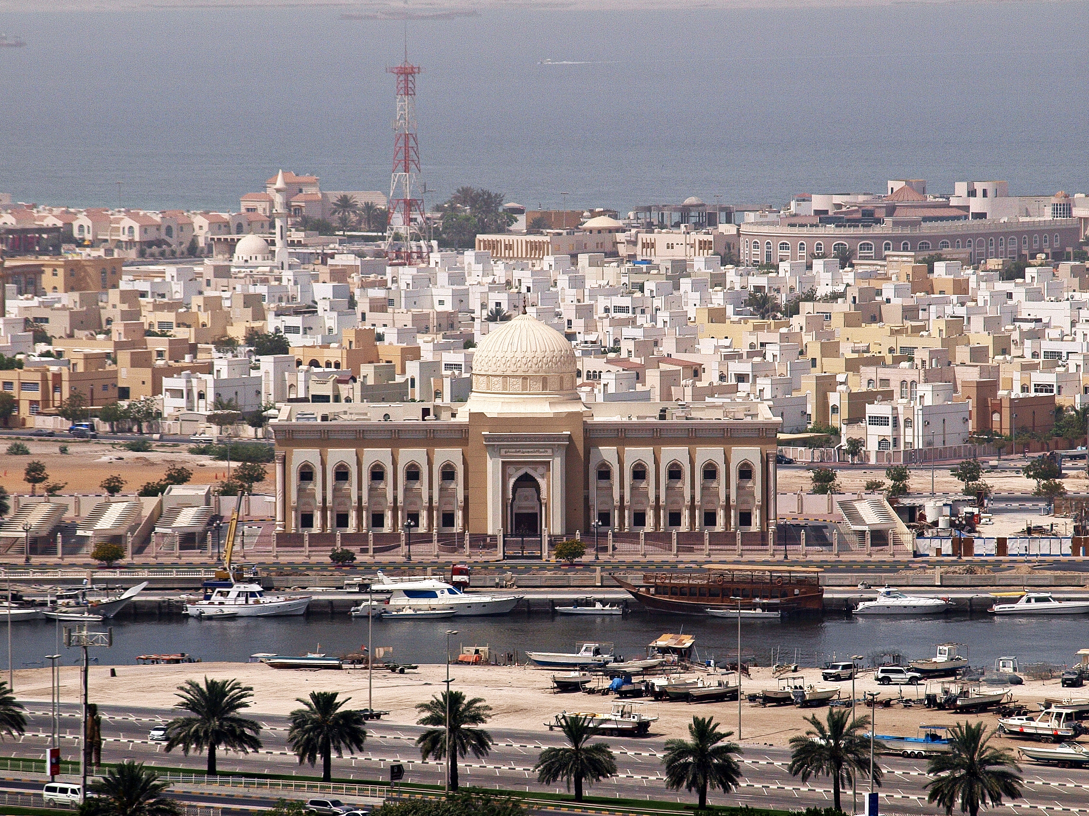 A view of the old residential area of Sharjah, UAE.